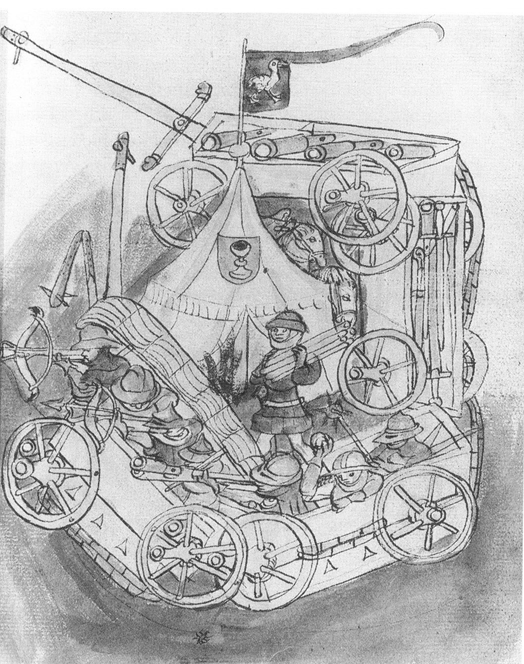 The Hussite Wagenburg - an old sketch from the 15th Century.